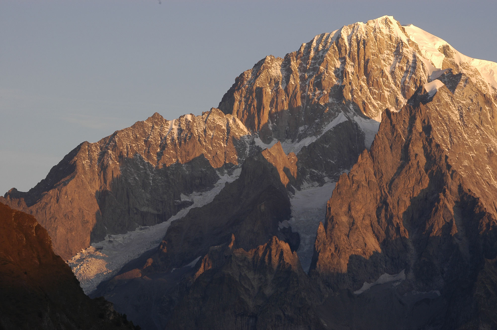 The Brouillard ridge to the Mont Blanc with the following 4000 meter culminations: Punta Baretti (4013m), Mont Brouillard (4069m), Pic Luigi Amedeo (4460m) and Mont Blanc de Courmayeur (4680m).